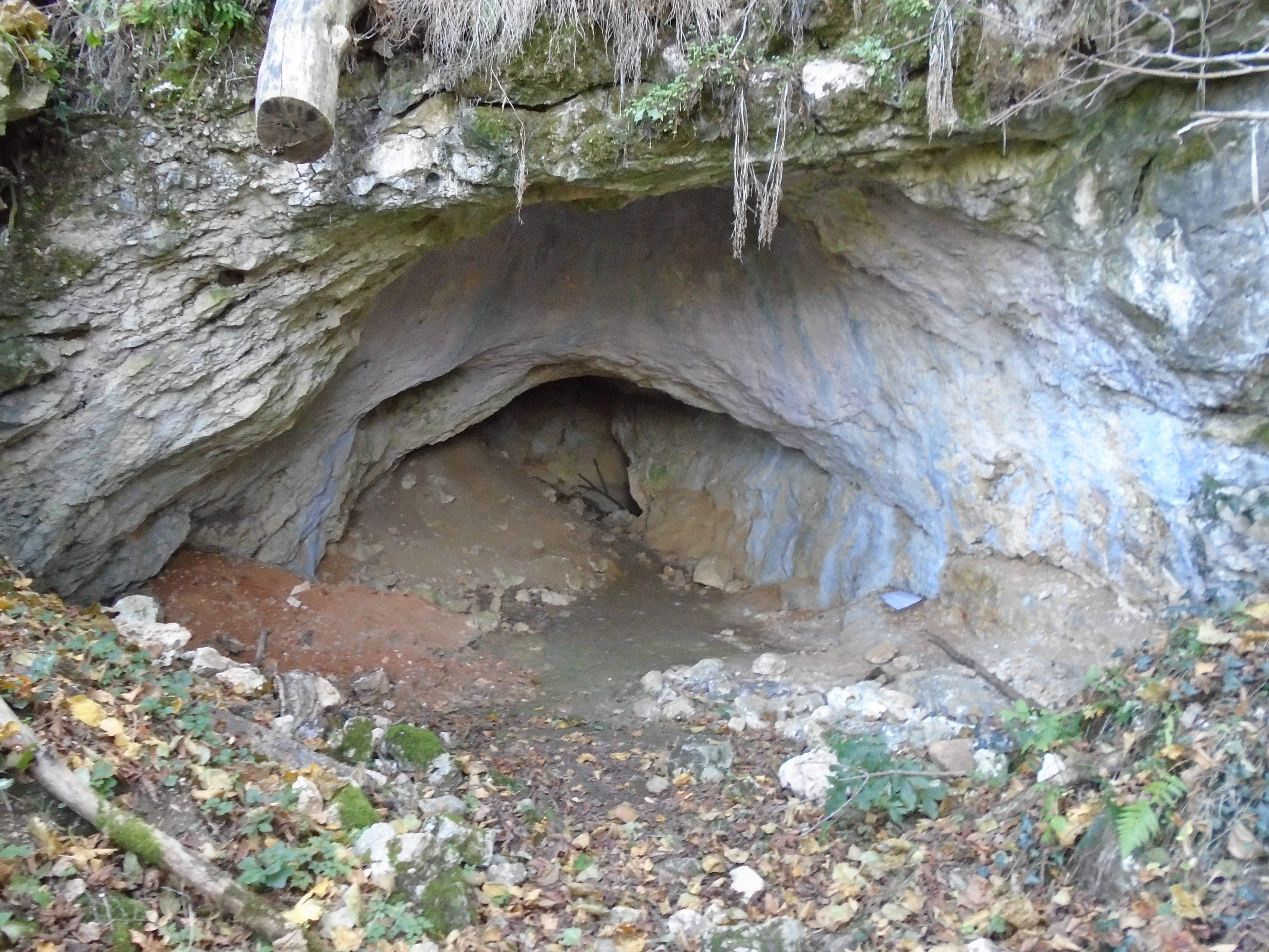 Entrance of Zöld Cave in Budakalász.